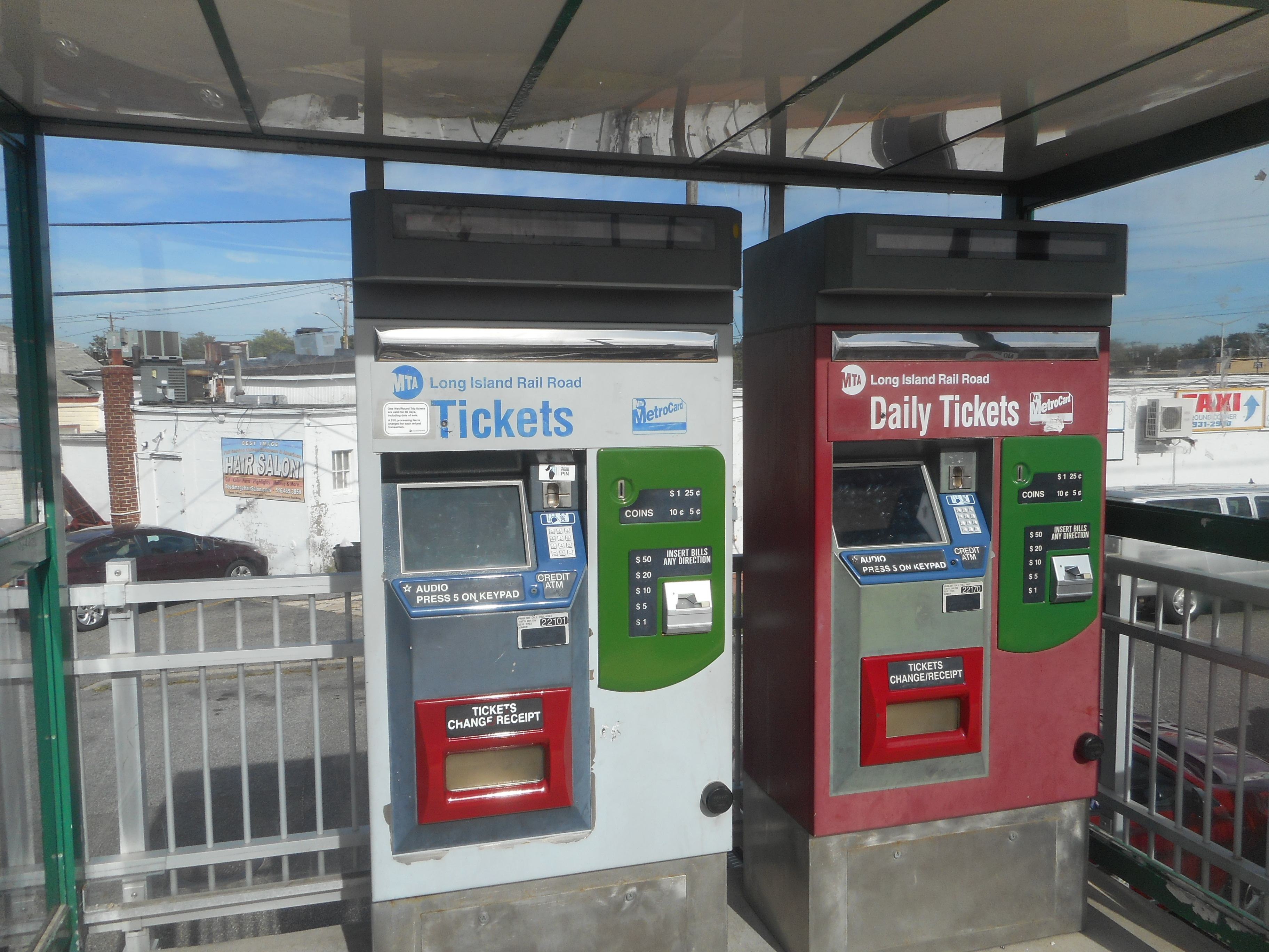 Additional images of the Bethpage Long Island Rail Road station on the LIRR Ronkonkoma/Greenport Branch in Bethpage, New York. Further details to come later.